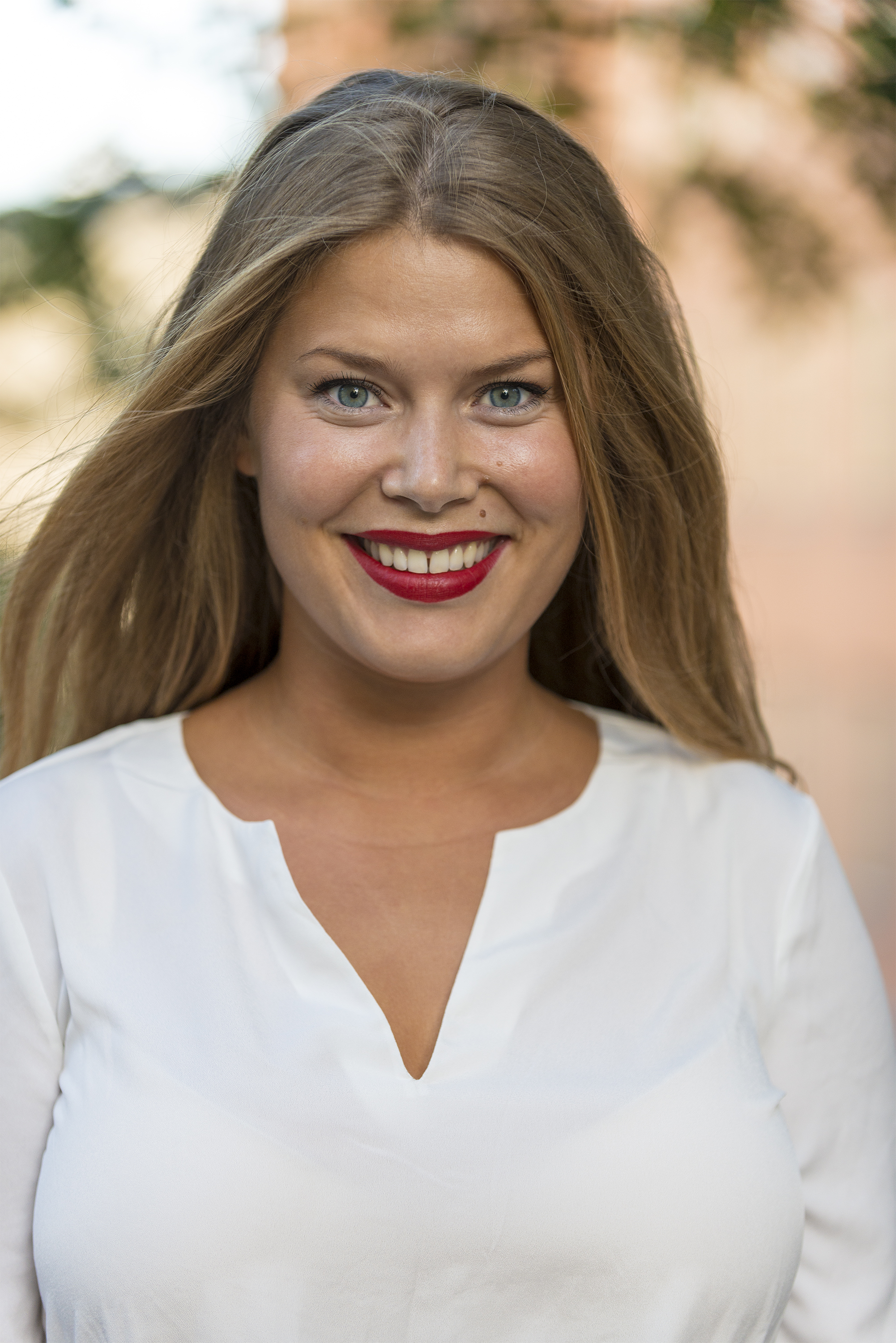 Swedish chef and cookery book writer Jessica Frej